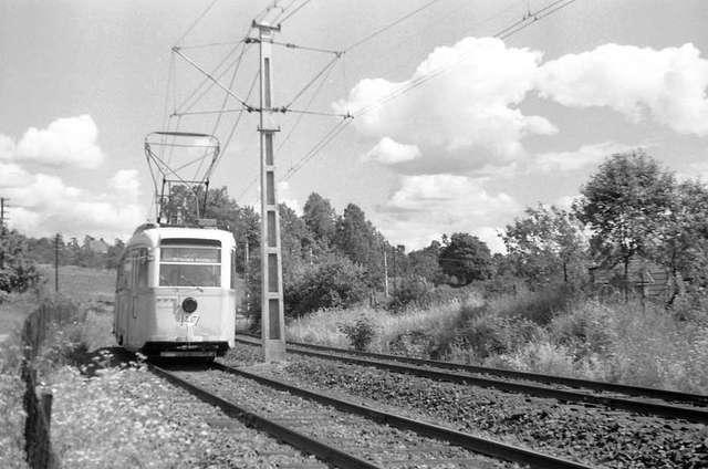 A Gullfisk between Sollerud and Lilleaker at the Lilleaker Line in Oslo, Norway